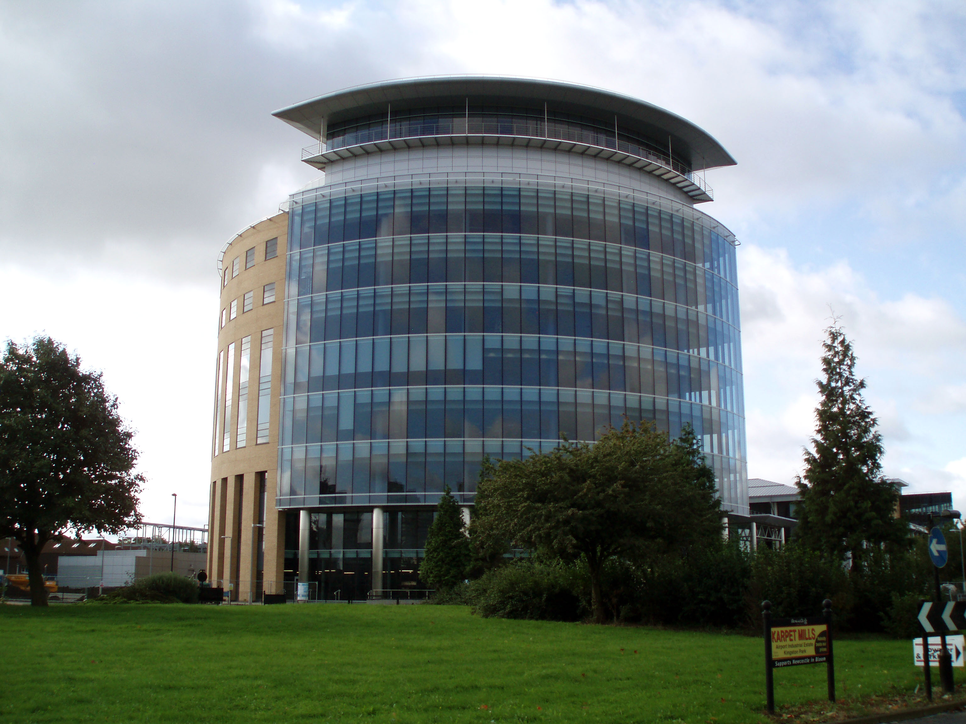 The 2008 Northern Rock Tower Building, at Regent Centre in Gosforth. Taken on 1 October 2008 during the final stages of construction.